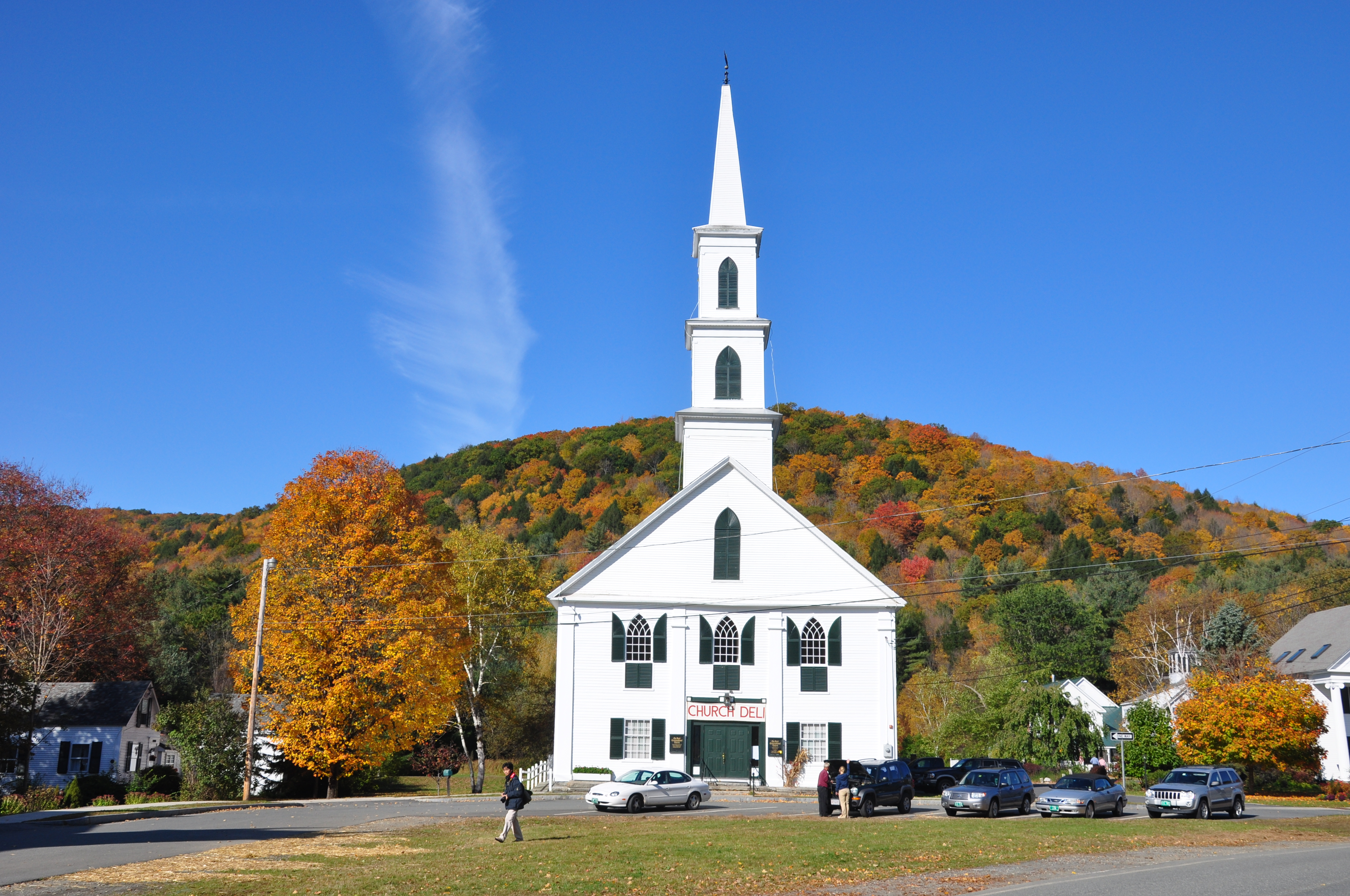 Newfane Vermont fall 2009